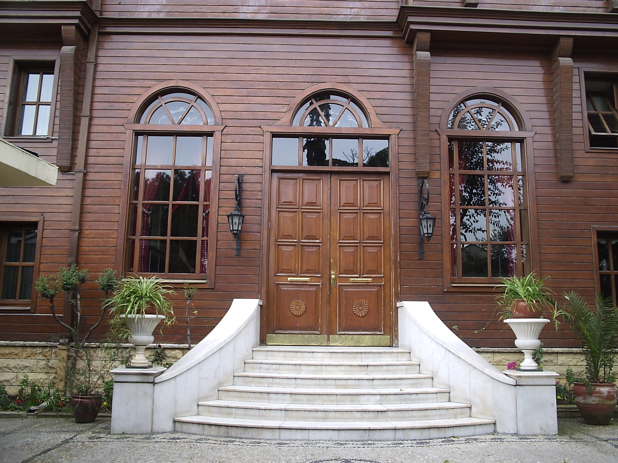 The Patriarchal residence in the Ecumenical Patriarchate of Constantinople in Phanar.